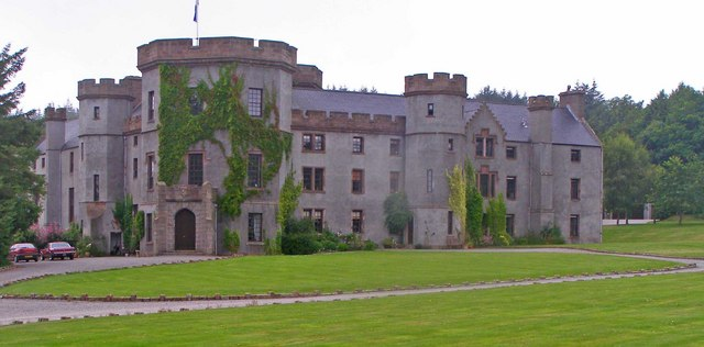 Main entrance, Castle of Fetteresso, with front lawn in foreground